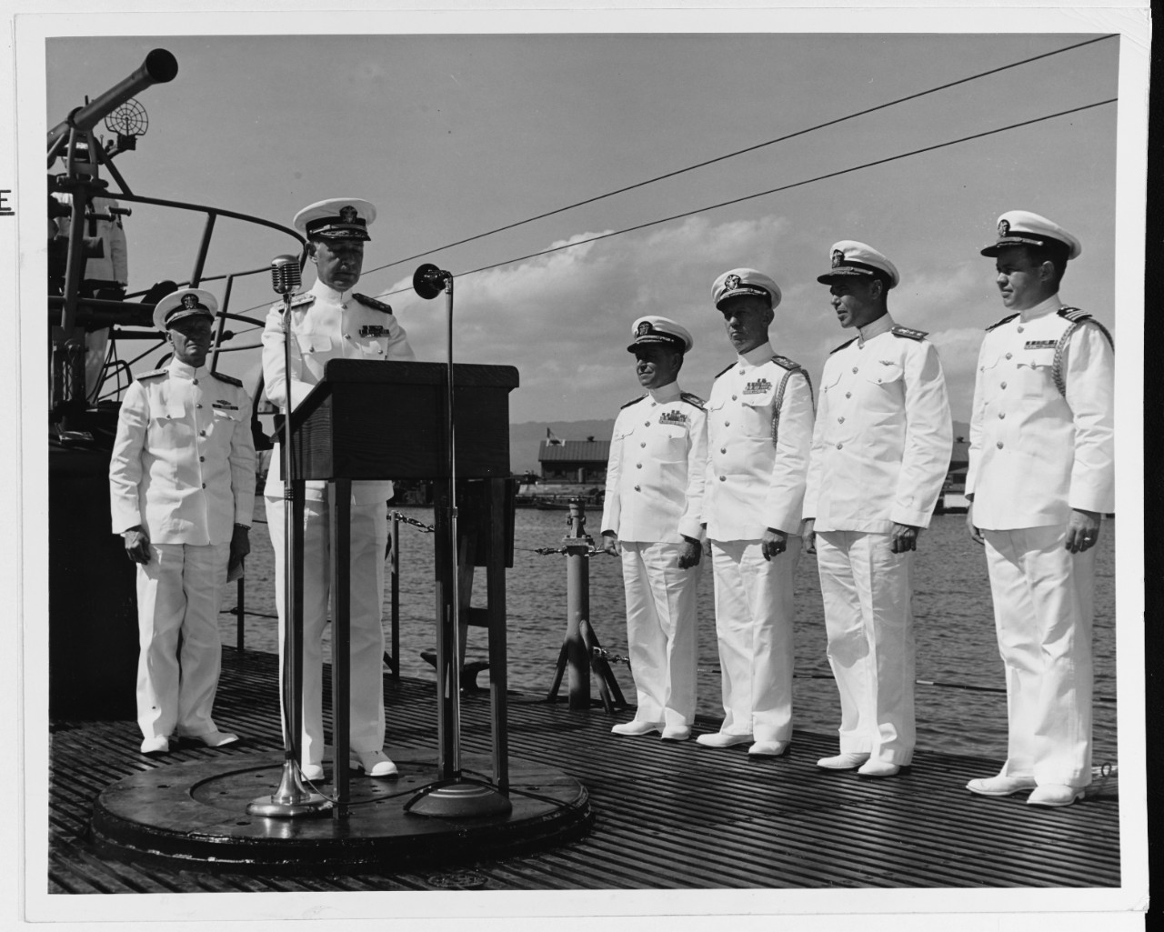 Admiral Raymond A. Spruance reads his orders, as he relieves Fleet Admiral Chester W. Nimitz as CINCPACFLT and POA aboard USS MENHADEN (SS-377), in Pearl Harbor, 24 November 1945. At right are L-R: Vice Admiral John H. Newton, Vice Admiral Charles H. McMorris, Rear Admiral DeWitt C. Ramsey, and Commander James Loo.